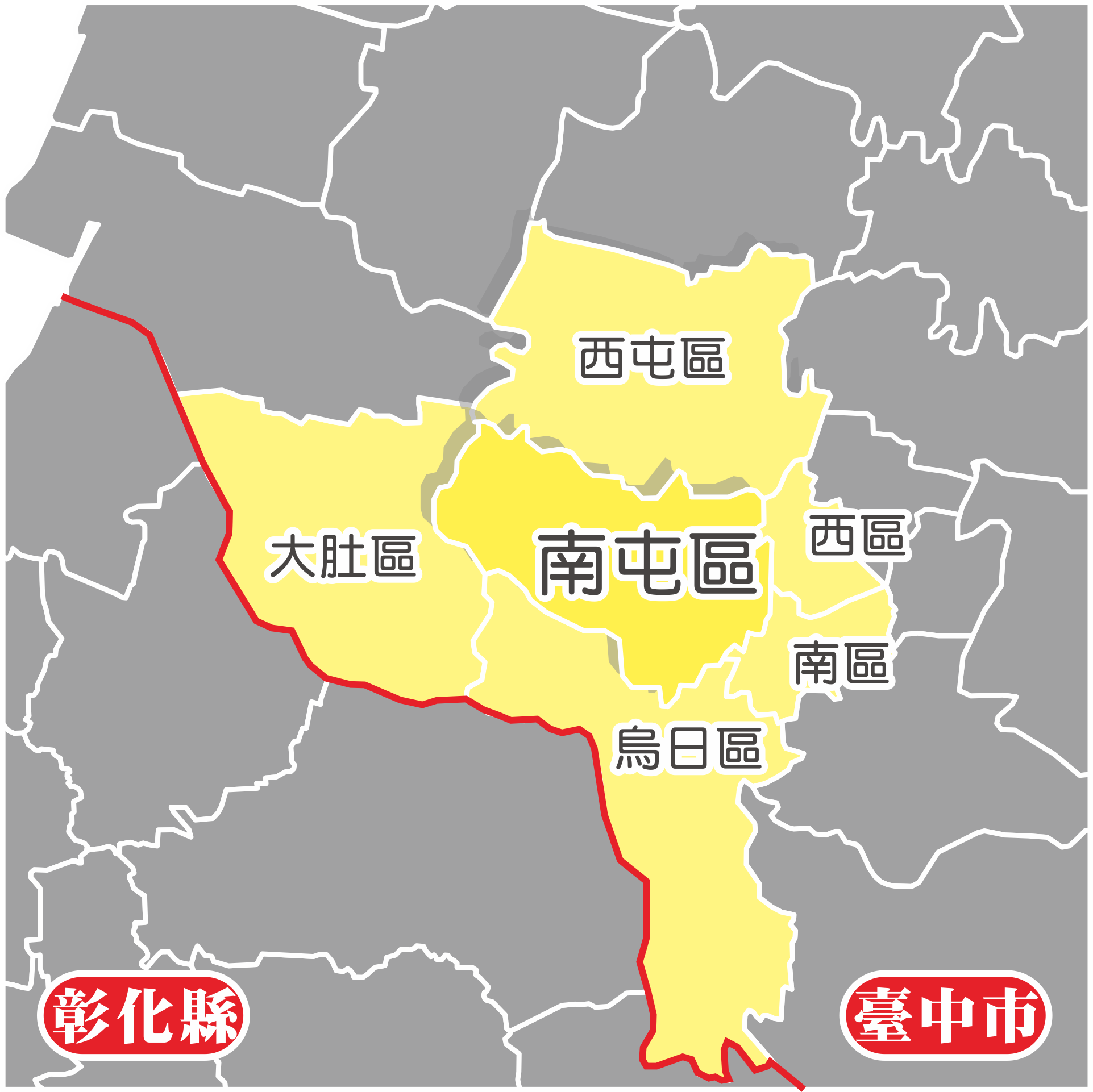 Nantun District中文（台灣）: 臺中市南屯區。